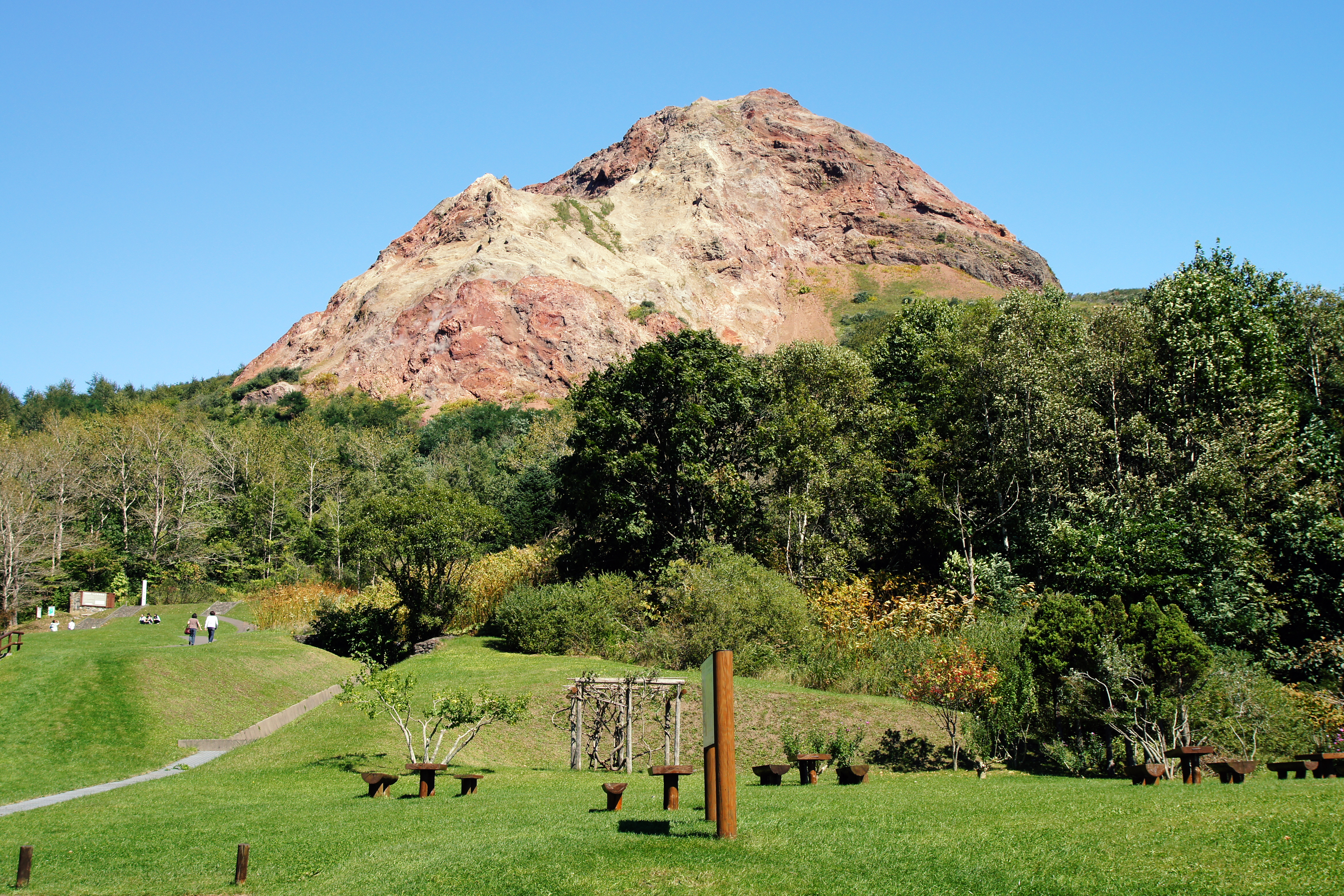 Shōwa-shinzan at Sobetsu, Hokkaido prefecture, Japan.